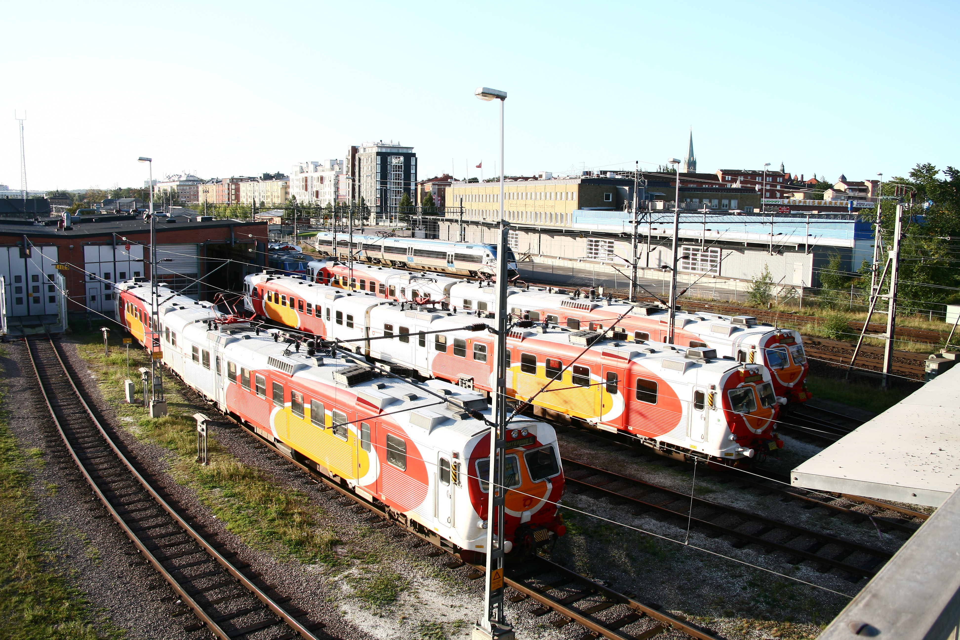 Local trains for Östgötatrafiken (local public transport company) at engine sheds near Linköping central station, seen from a bridge, looking towards the tower of Linköping cathedral (center-right) and the newly built housing blocks along Järnvägsgatan (center-left).